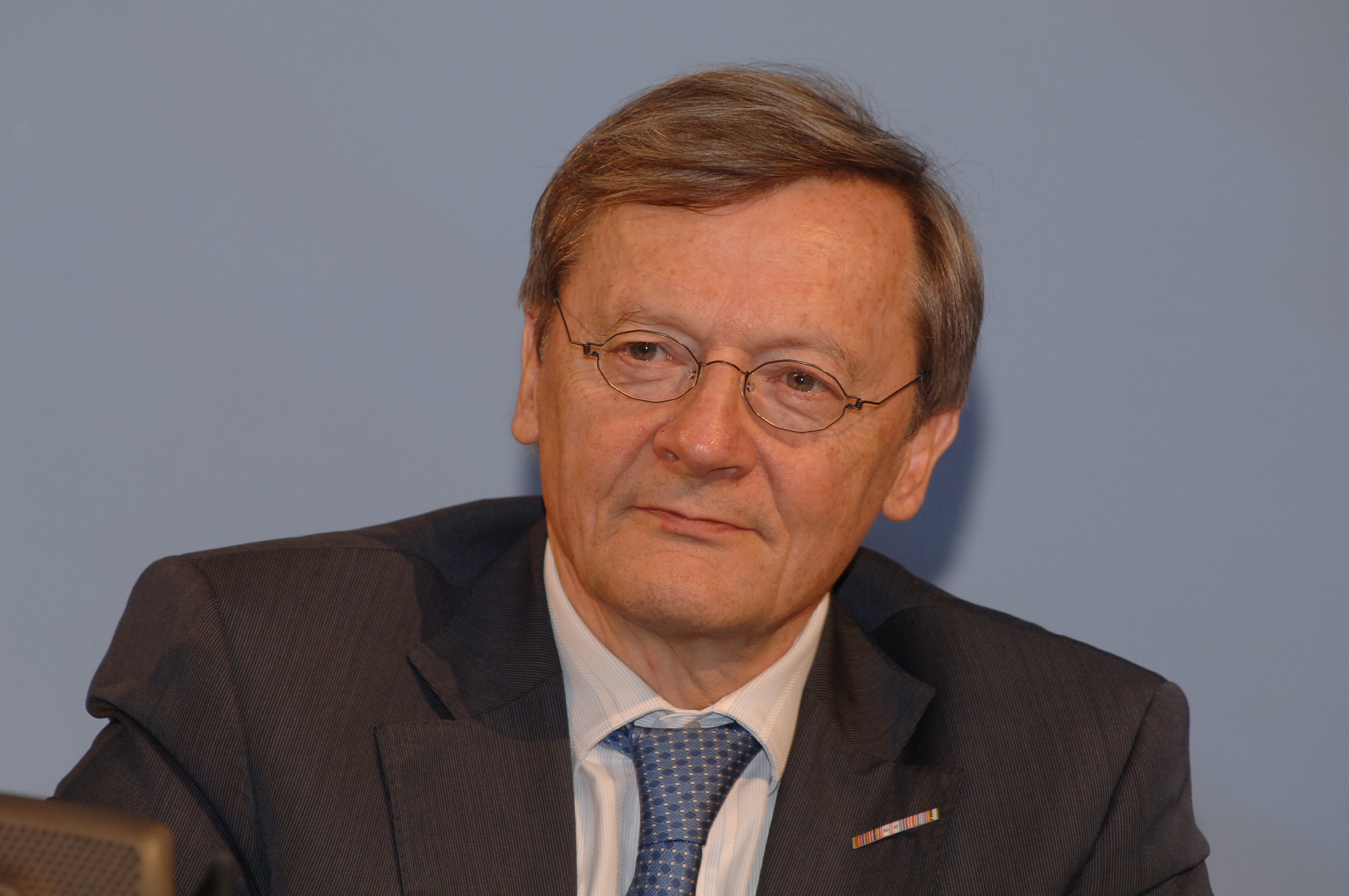 EPP Congress Rome 2006